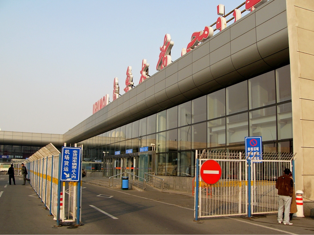 Urumqi Airport's former international terminal.